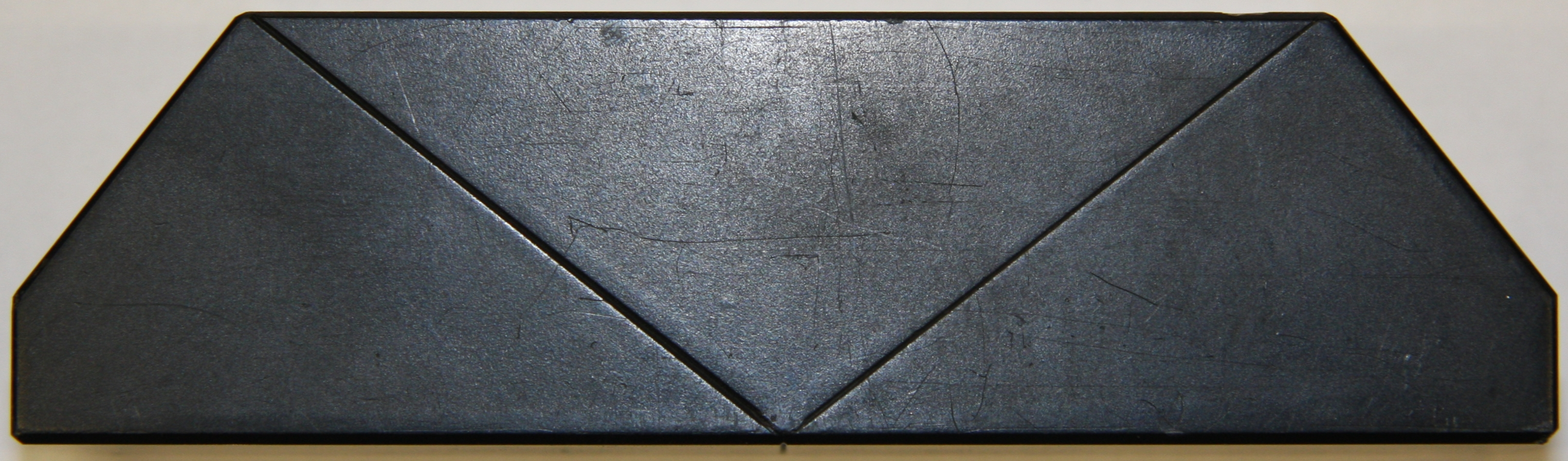 Top view of an amici direct-vision prism